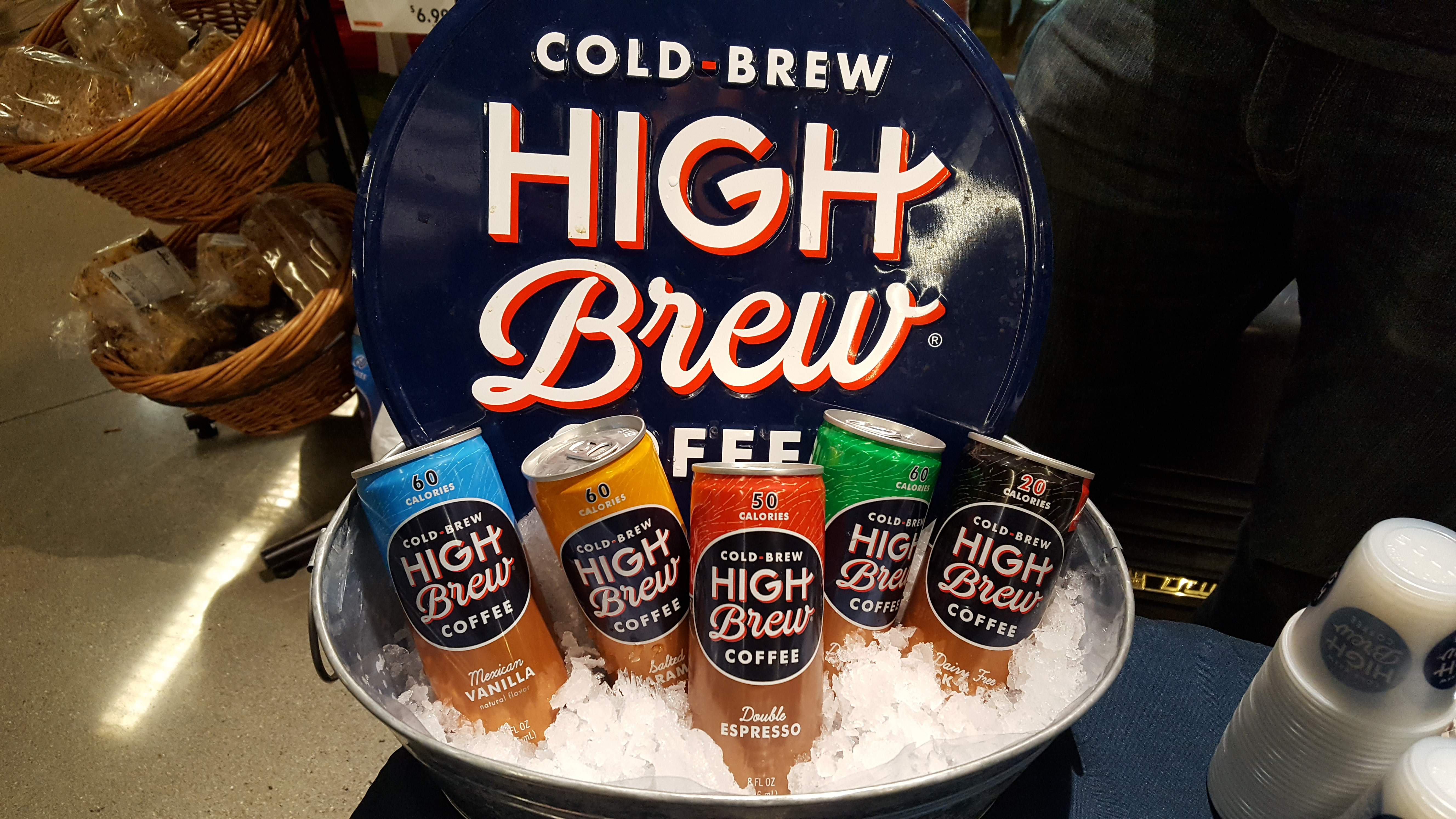 A display of cold brew coffees in a Whole Foods market.